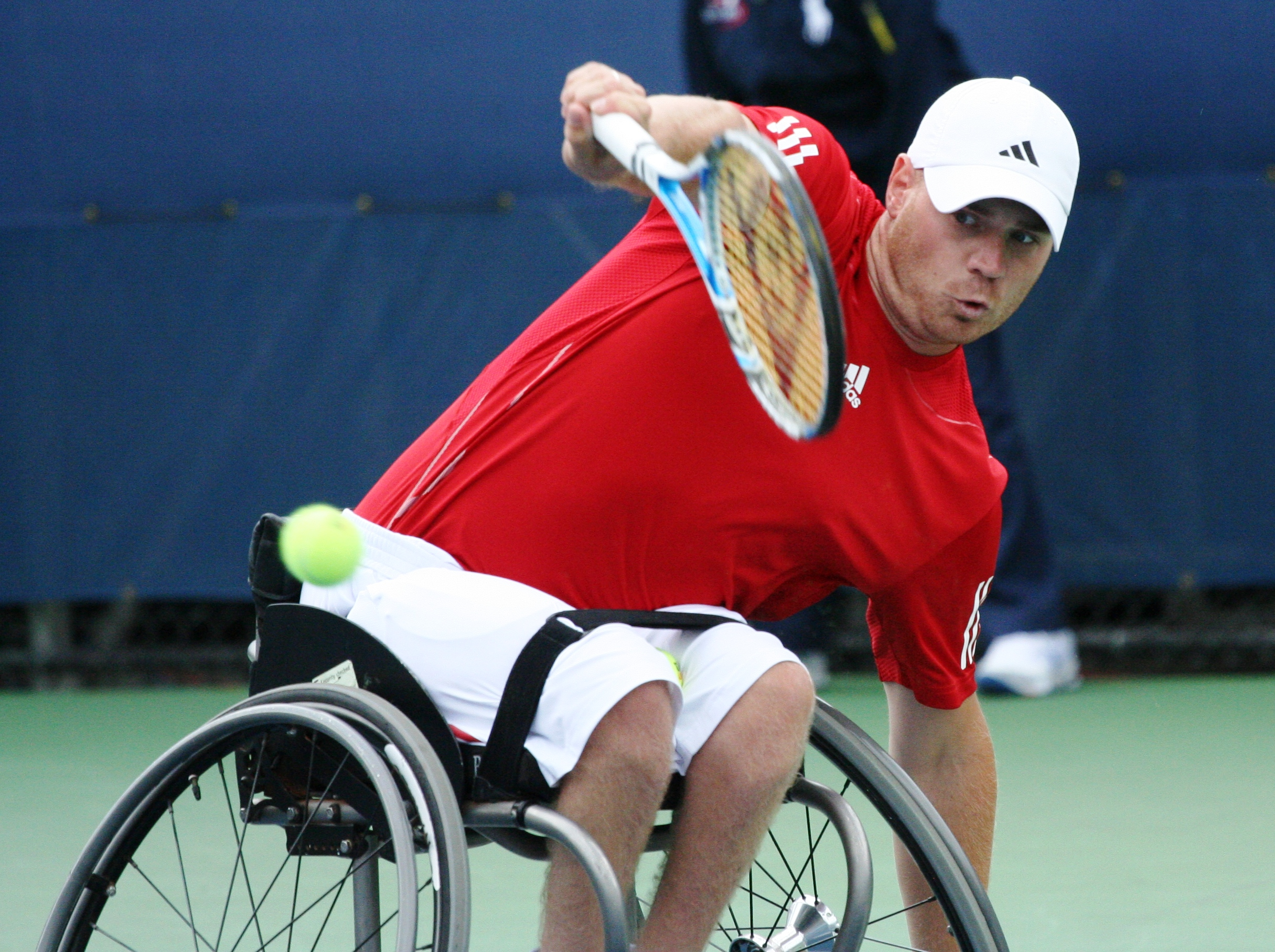 U.S. Open Wheelchair Thursday, Sept. 9, 2010